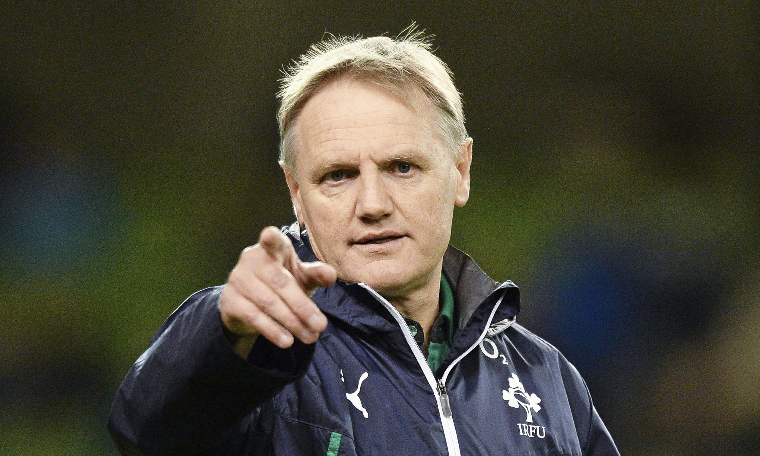 An image of Joe Schmidt coaching the Irish rugby union team.